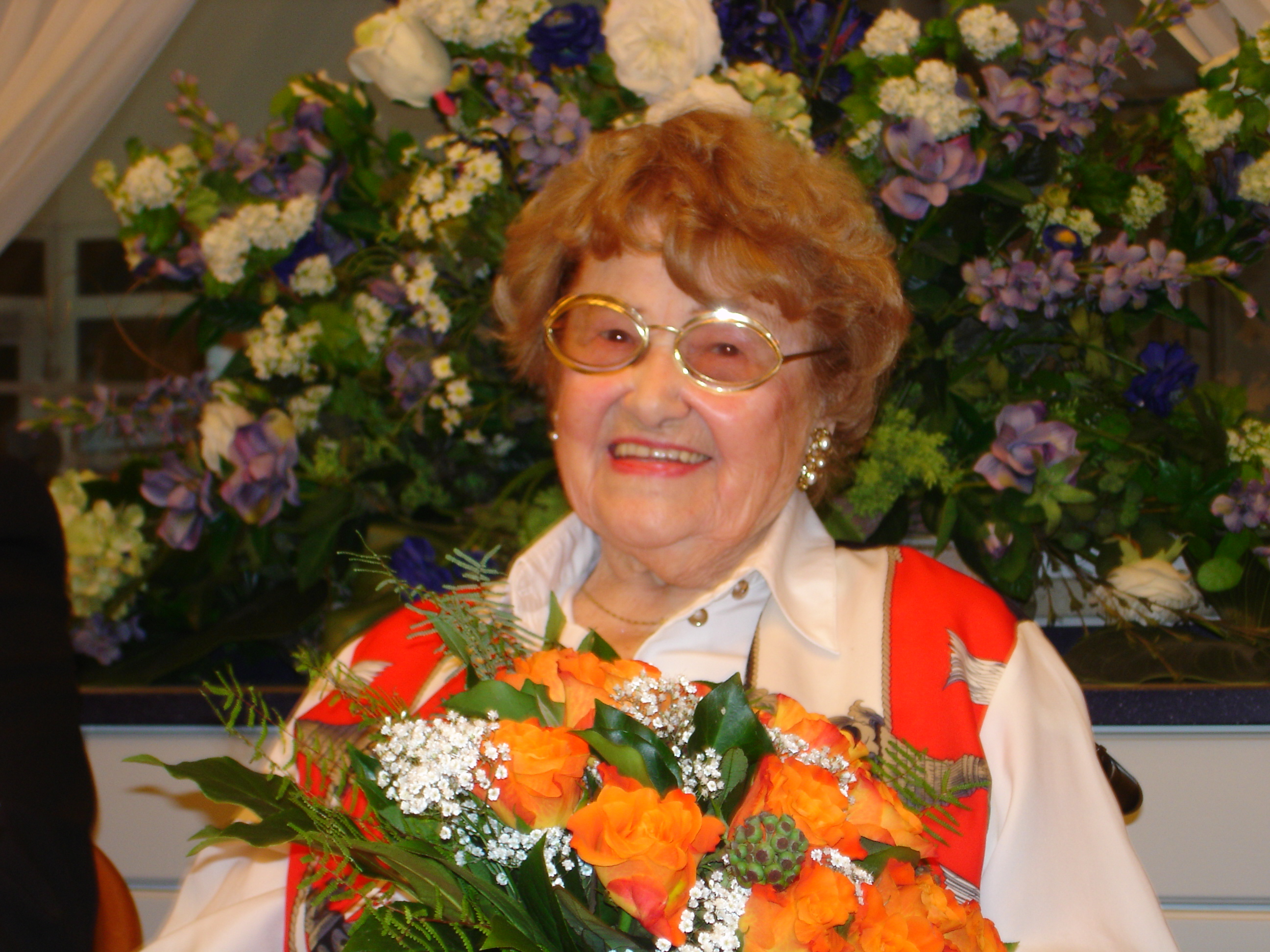 Draga Matkovic on her 100th birthday